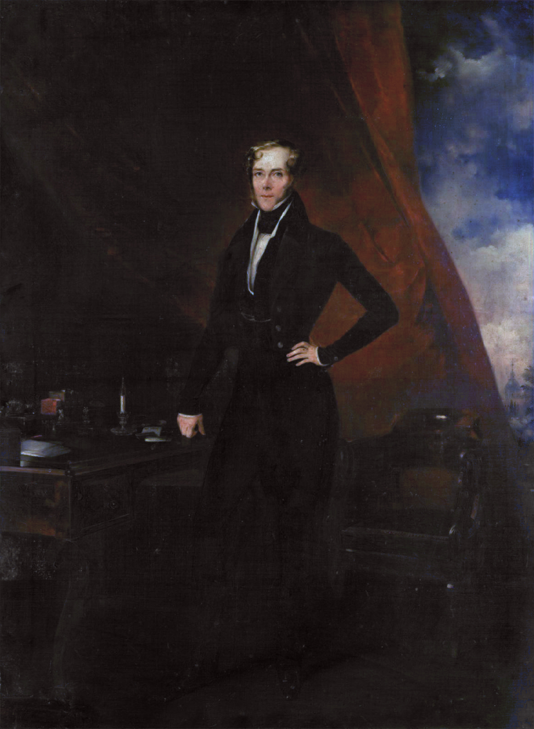 George William Frederick Villiers, 4th Earl of Clarendon (1800-1870)